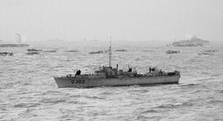 Caption: "With the motor launch ML 303 in the foreground, a large number of landing craft approach the beaches during the invasion of Normandy on D-Day. Several other large ships can be seen in the distance."